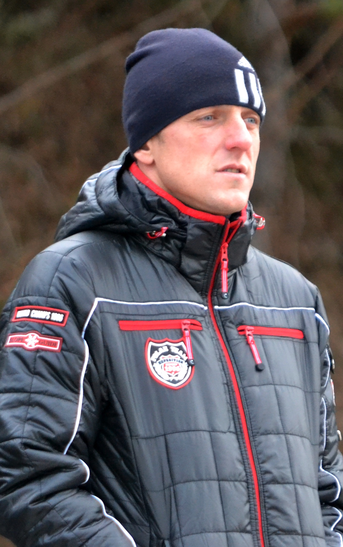 Luboš Kozel, Czech footballer